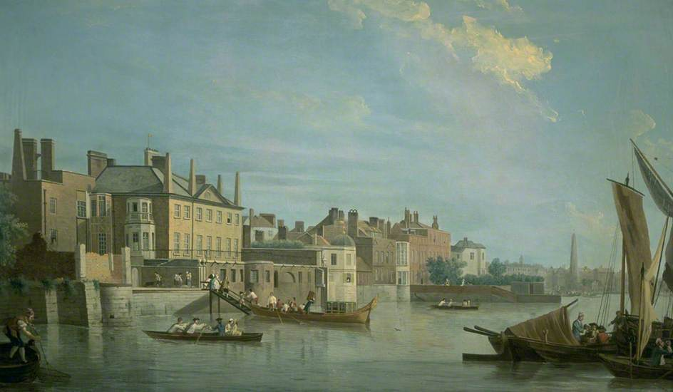 Scott, Samuel; The Thames with Montagu House, from near Westminster Bridge, London; City of London Corporation